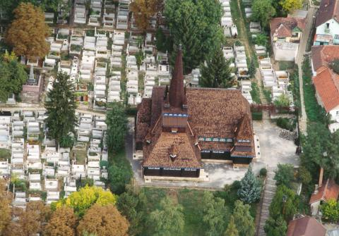 Miskolc, Hungary, aerial photo of the Wooden Church